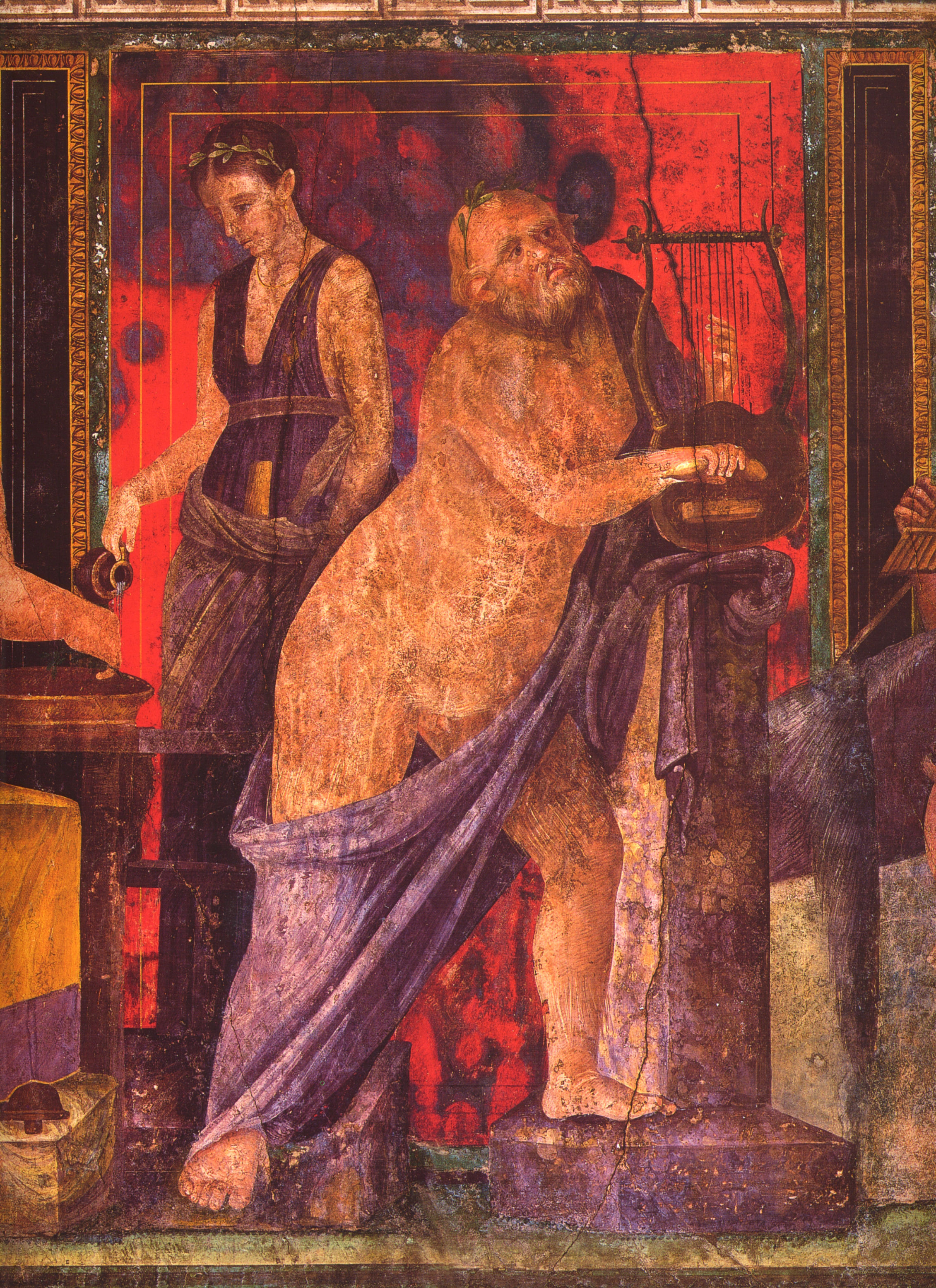 Fresco from the Sala di Grande Dipinto, Scene IV in the Villa de Misteri (Pompeii).